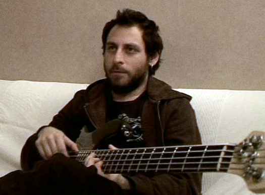 Opeth's bass player, Martín Mendez.